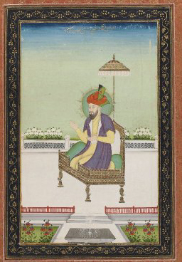 Indian. Umar Shaykh Mirza, 1875-1900. Opaque watercolor and gold on paper, sheet: 19 5/8 x 11 13/16 in. (49.8 x 30.0 cm). Brooklyn Museum, Gift of James S. Hays, 59.205.9